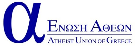 Logo of the Atheist Union of Greece (Ένωση Αθέων).